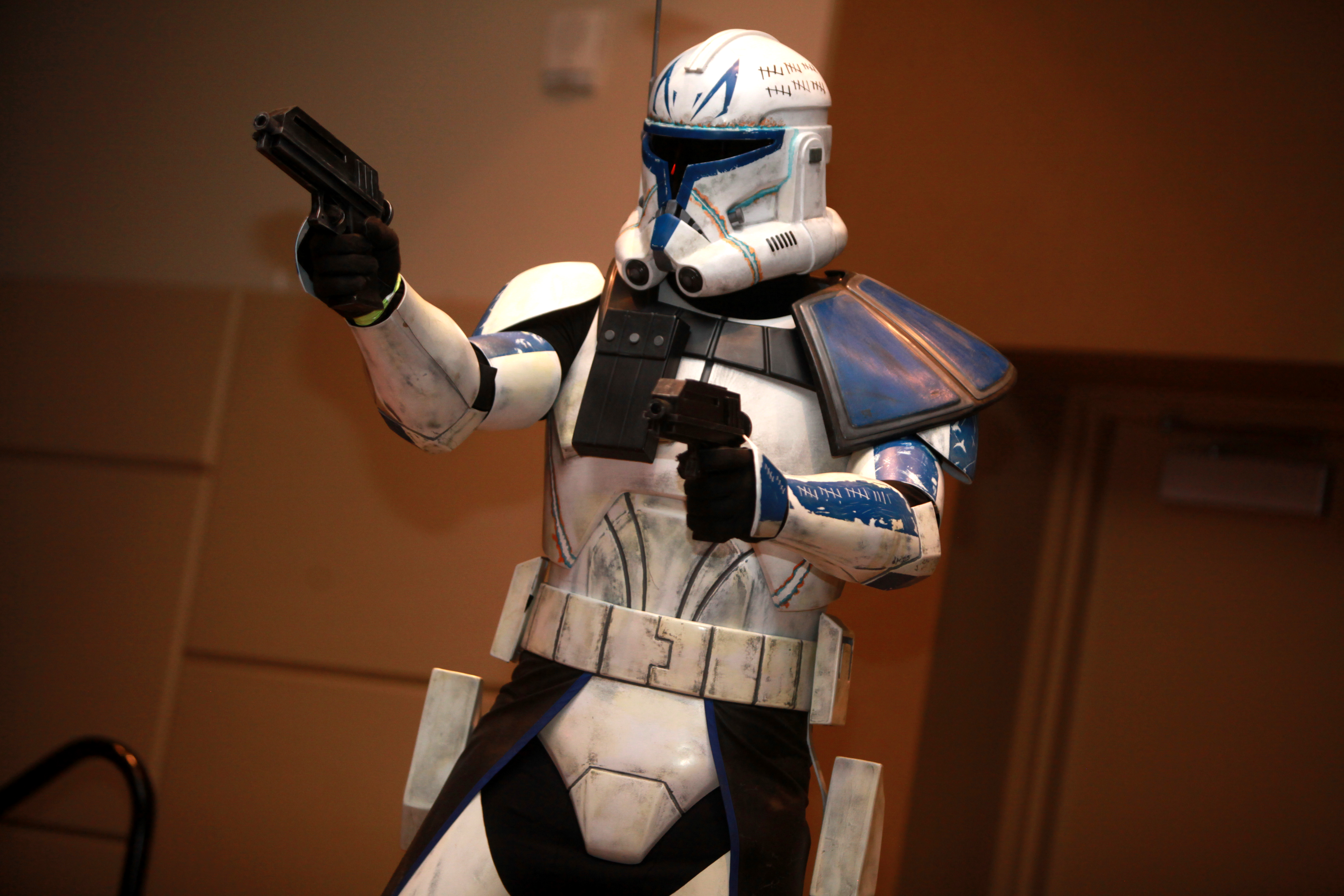 Star Wars cosplayer at the 2014 Amazing Arizona Comic Con at the Phoenix Convention Center in Phoenix, Arizona.